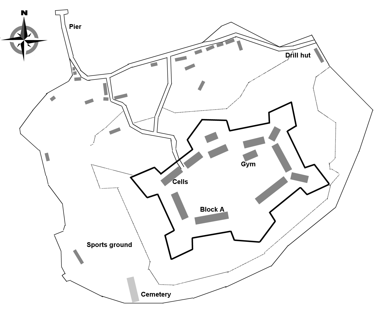 Rough outline plan of island and fort on Spike Island in Cork Harbour. Hand drawn using 19th century map (and own knowledge of island) as simple guide. NOT intended to be 100% accurate or to scale (hence no scale on plan)